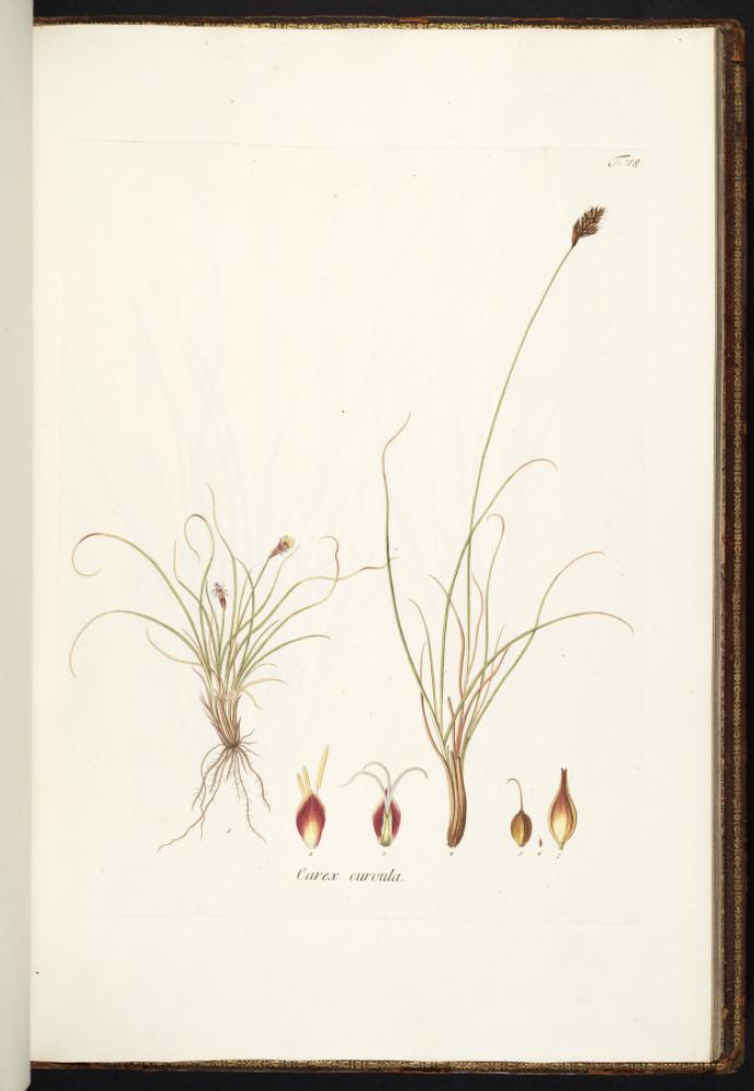 Illustration of Carex curvula